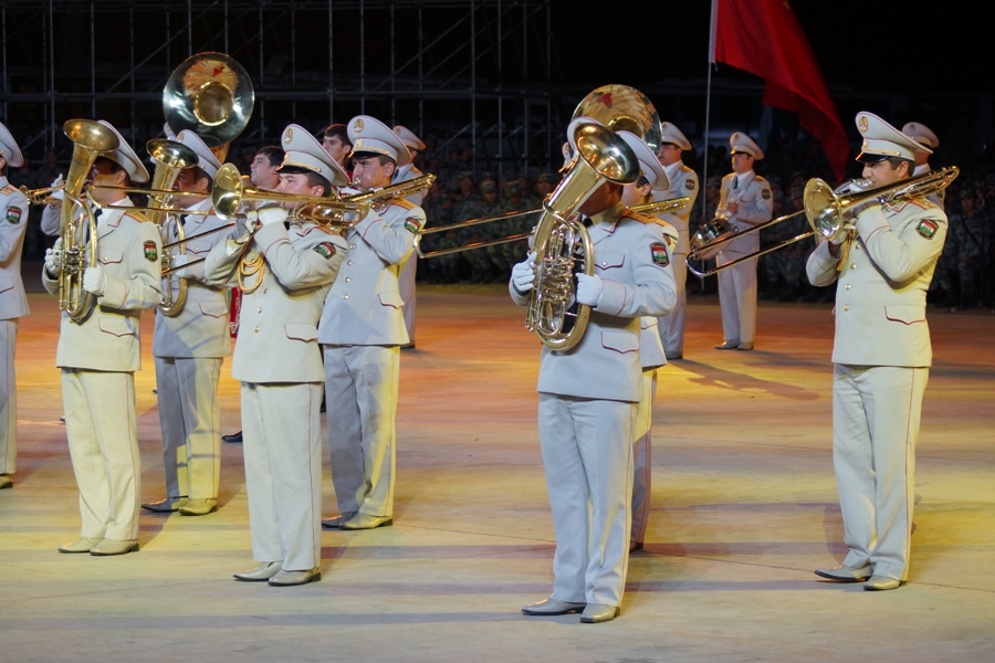 Первый Международный военно-музыкальный фестиваль «Труба мира» в рамках международного учения «Мирная миссия-2014»